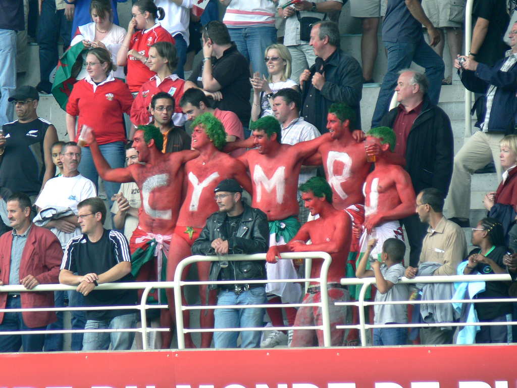 Wales supporters at the 2007 Rugby World Cup